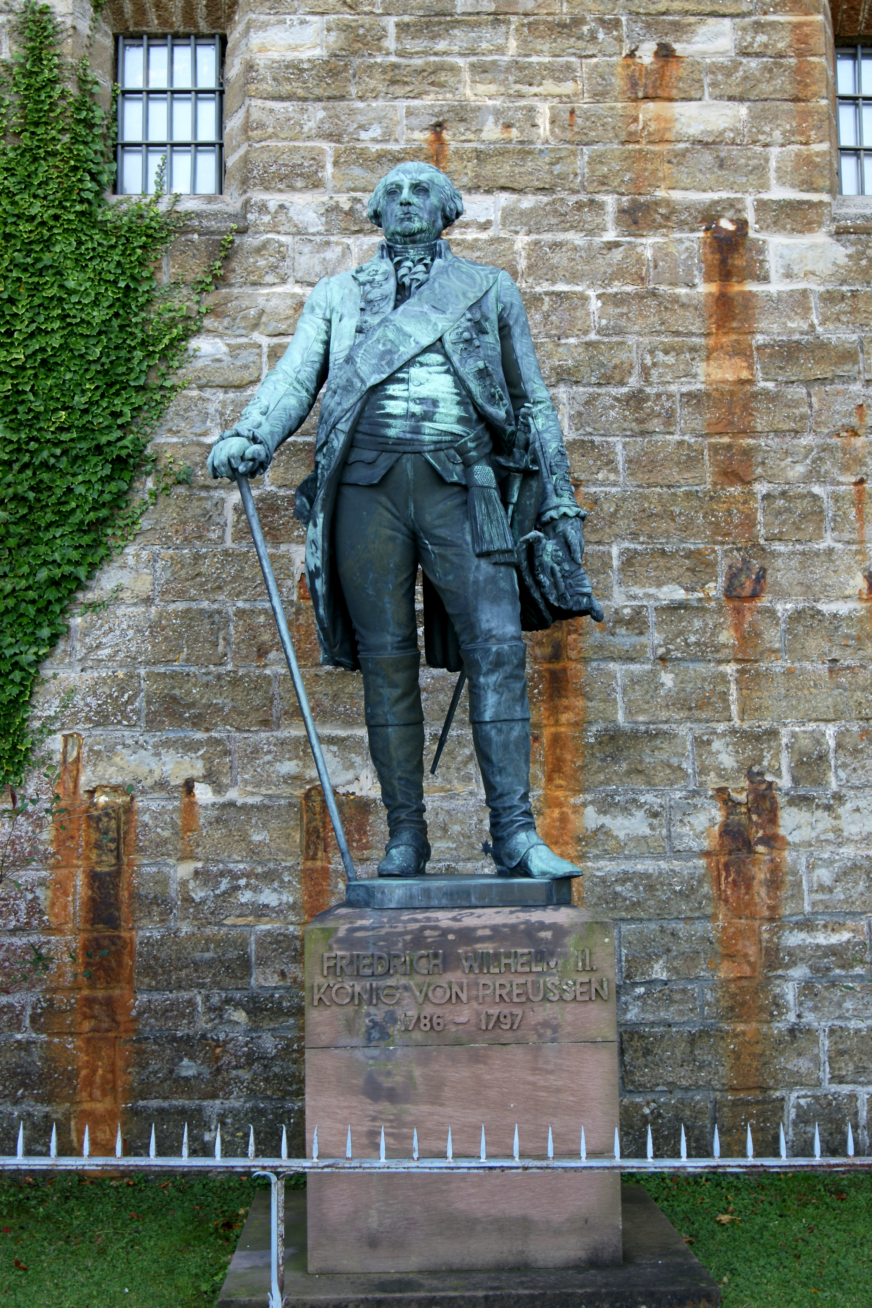 Friedrich Wilhelm II of Prussia, sculpted by Ludwig Brunow for former Ruhmeshalle Berlin.